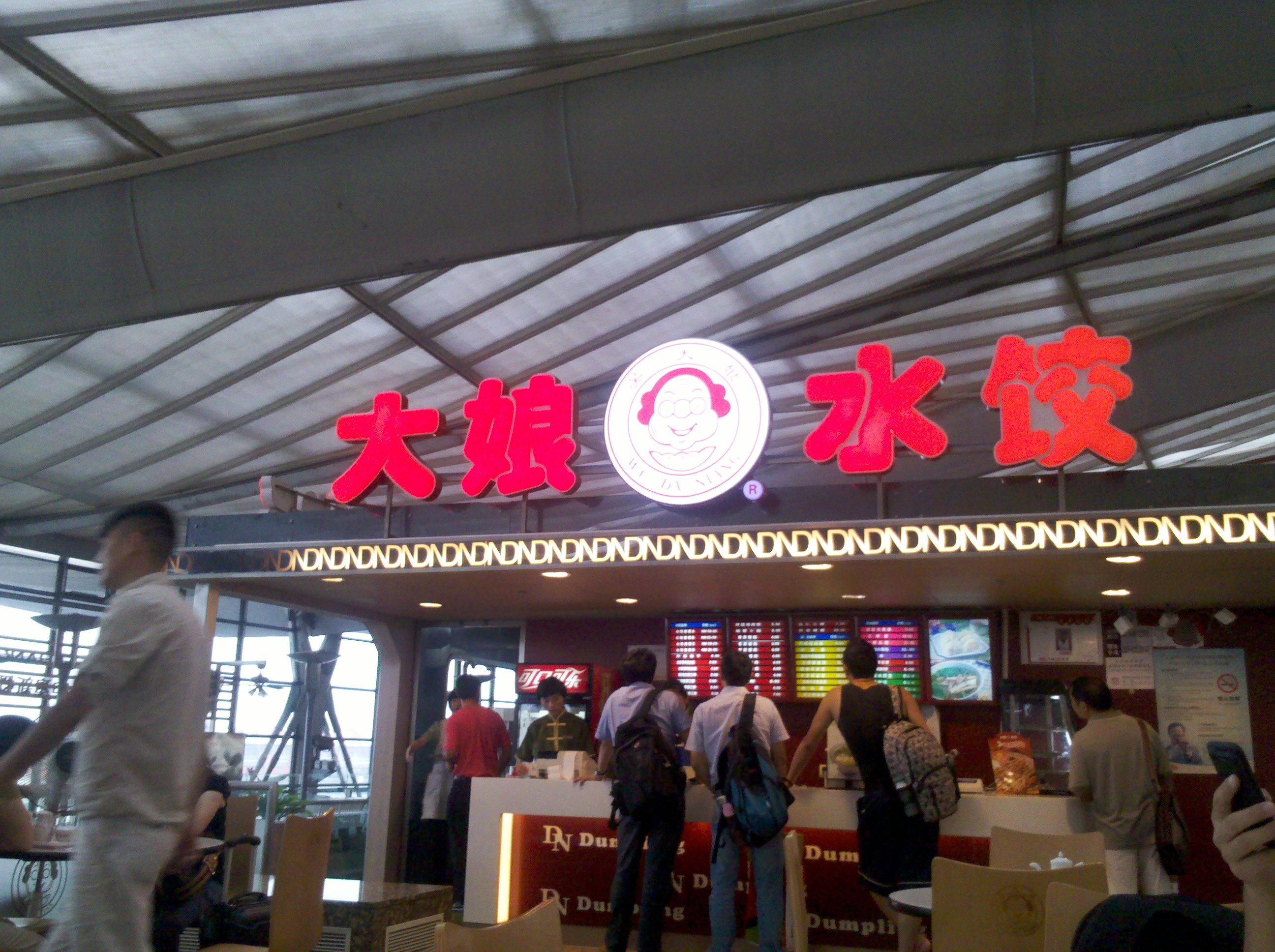 Da Niang Dumpling location at Shanghai South Railway Station